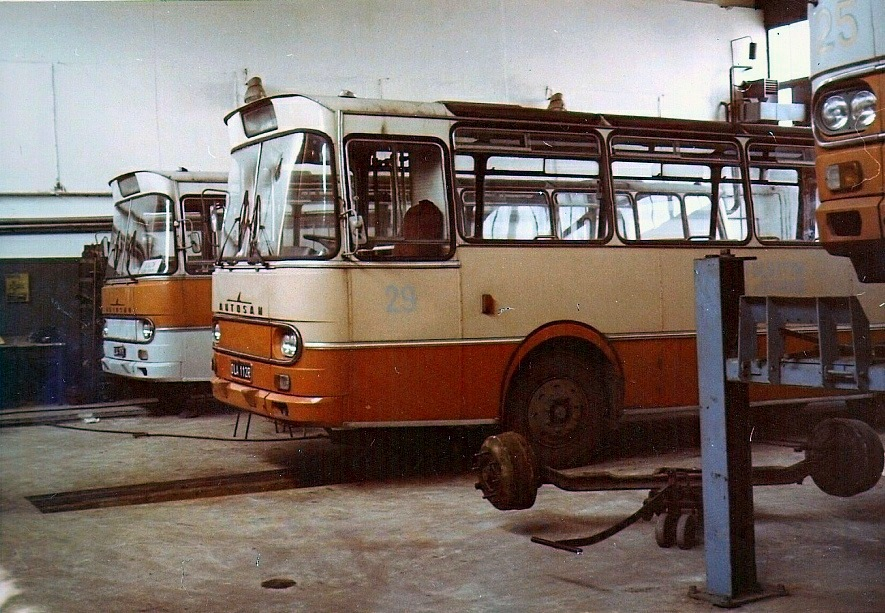 Two Autosan H9-35 buses in Ostróda, Poland. WPKM Olsztyn pt. Ostróda operator.